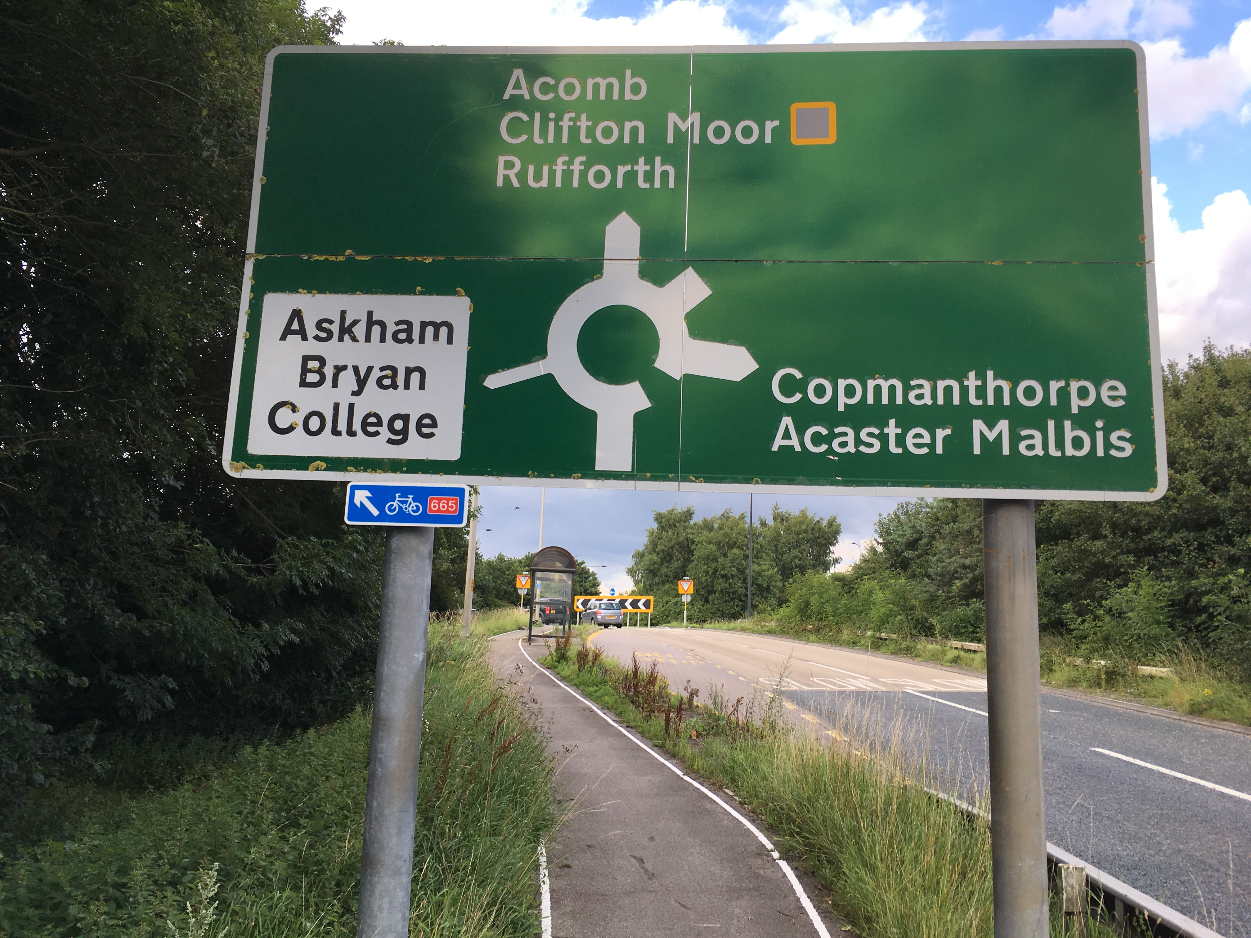 Sign on A64 off ramp at A1237 junction, Copmanthorpe, York.